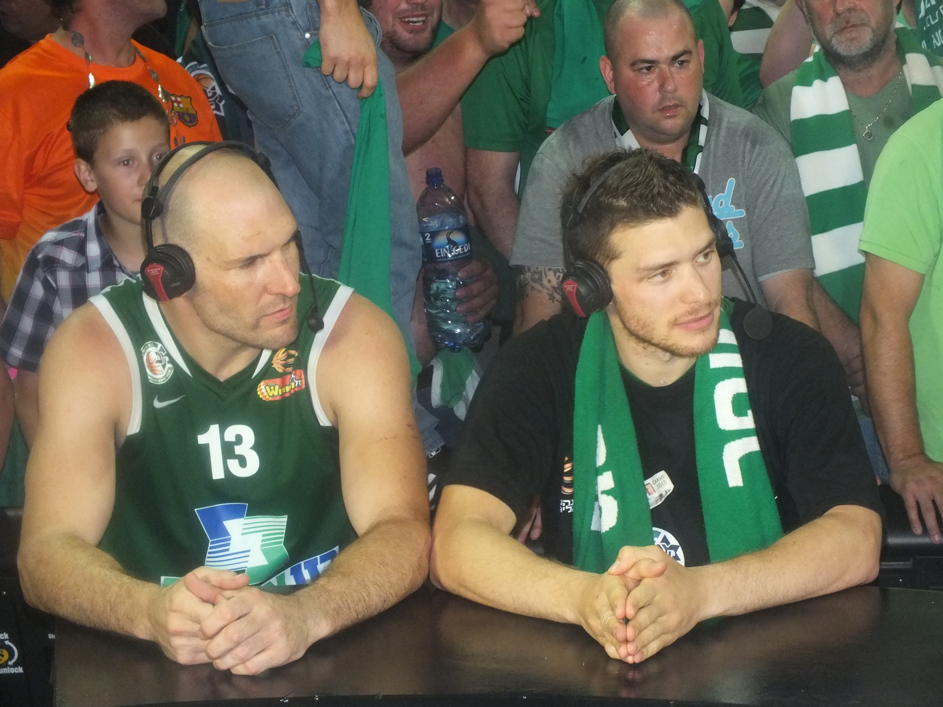 Men facing right wearing headphones to avoid noisy crowd while attending press' questions. ;)